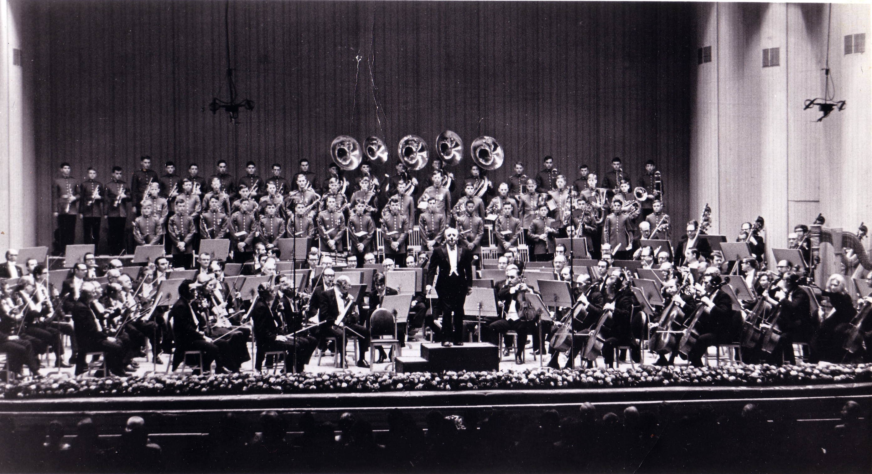 January 1970. The Philadelphia Orchestra, conducted by Eugene Ormandy, and the Valley Forge Military Academy Band under the leadership of Colonel D. Keith Feltham, performed the "1812 Overture" (full title: Festival Overture "The Year 1812", op. 49); by Pyotr Ilyich Tchaikovsky live at the Academy of Music in Philadelphia, PA.